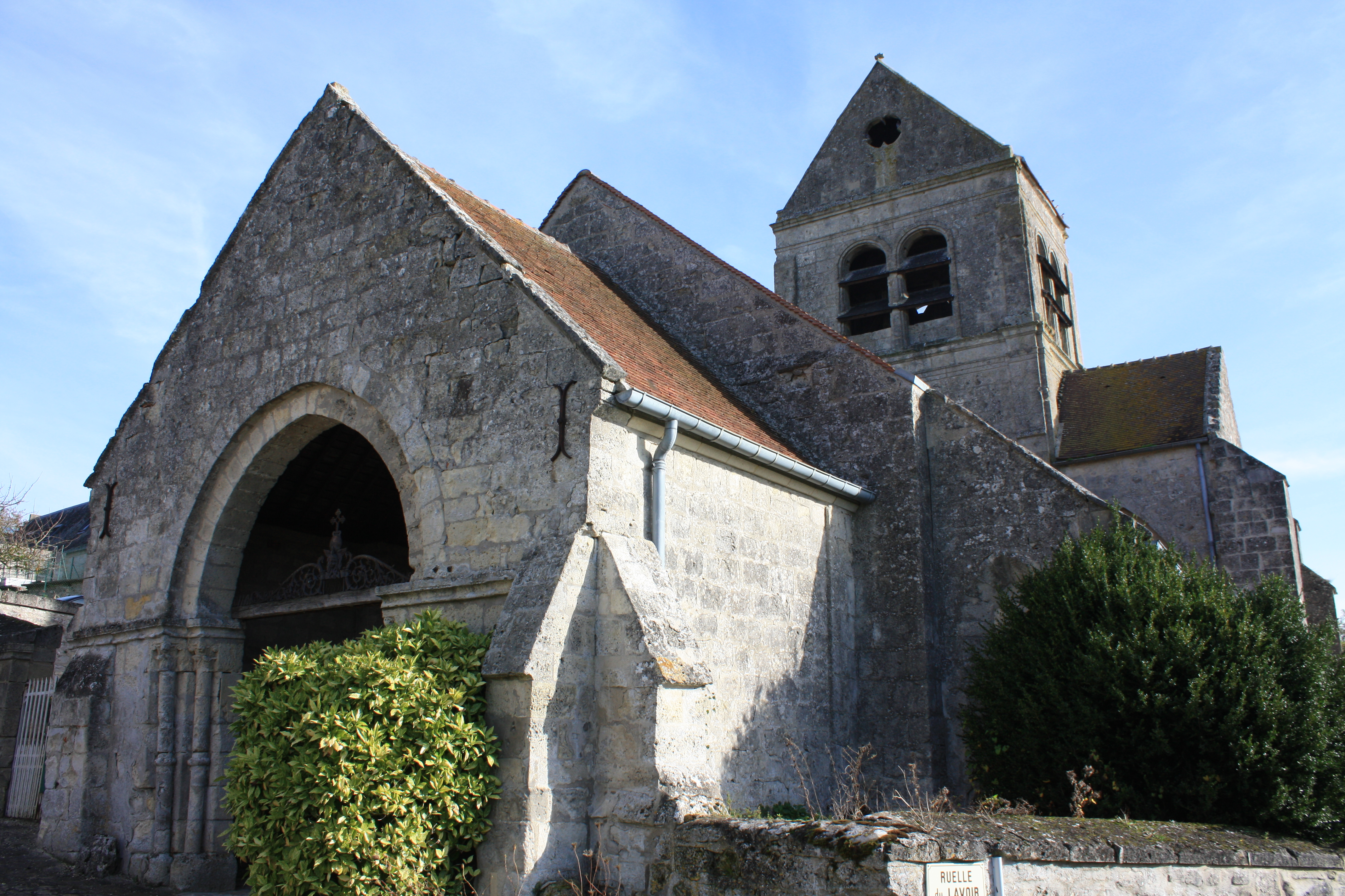 Eglise saint-Rémi 2